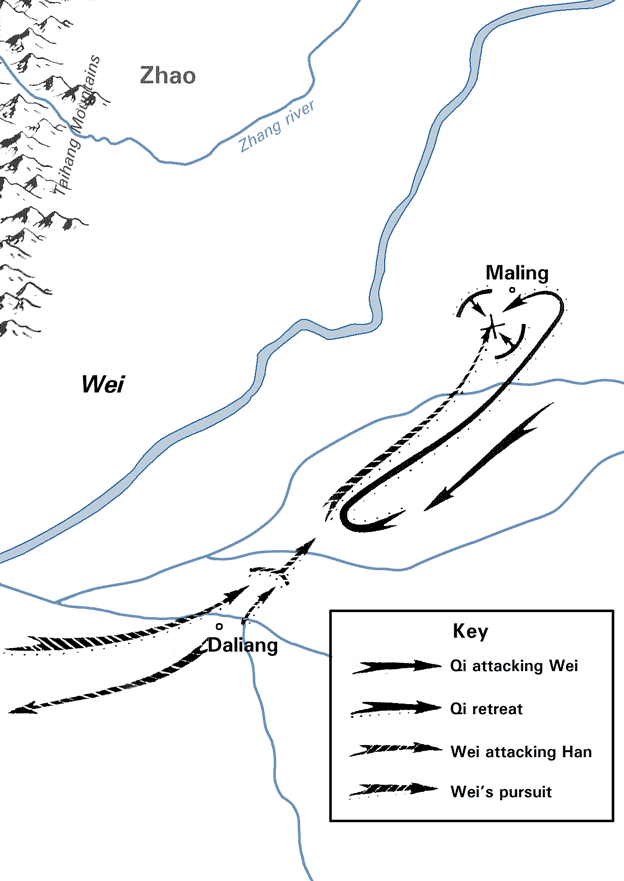 Map of battle of Maling in 341 BC.